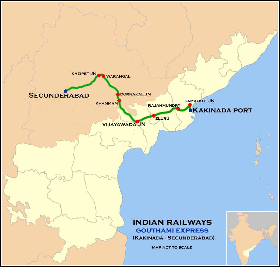 Goutami Express(Secunderabad-Kakinada) Route map